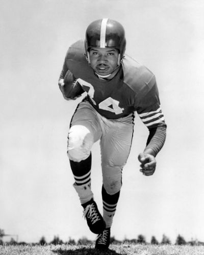 Former 49ers. fullback Joe Perry in 1963, when he returned to the team after his tenure on the Colts. That same year Perry retired from football.